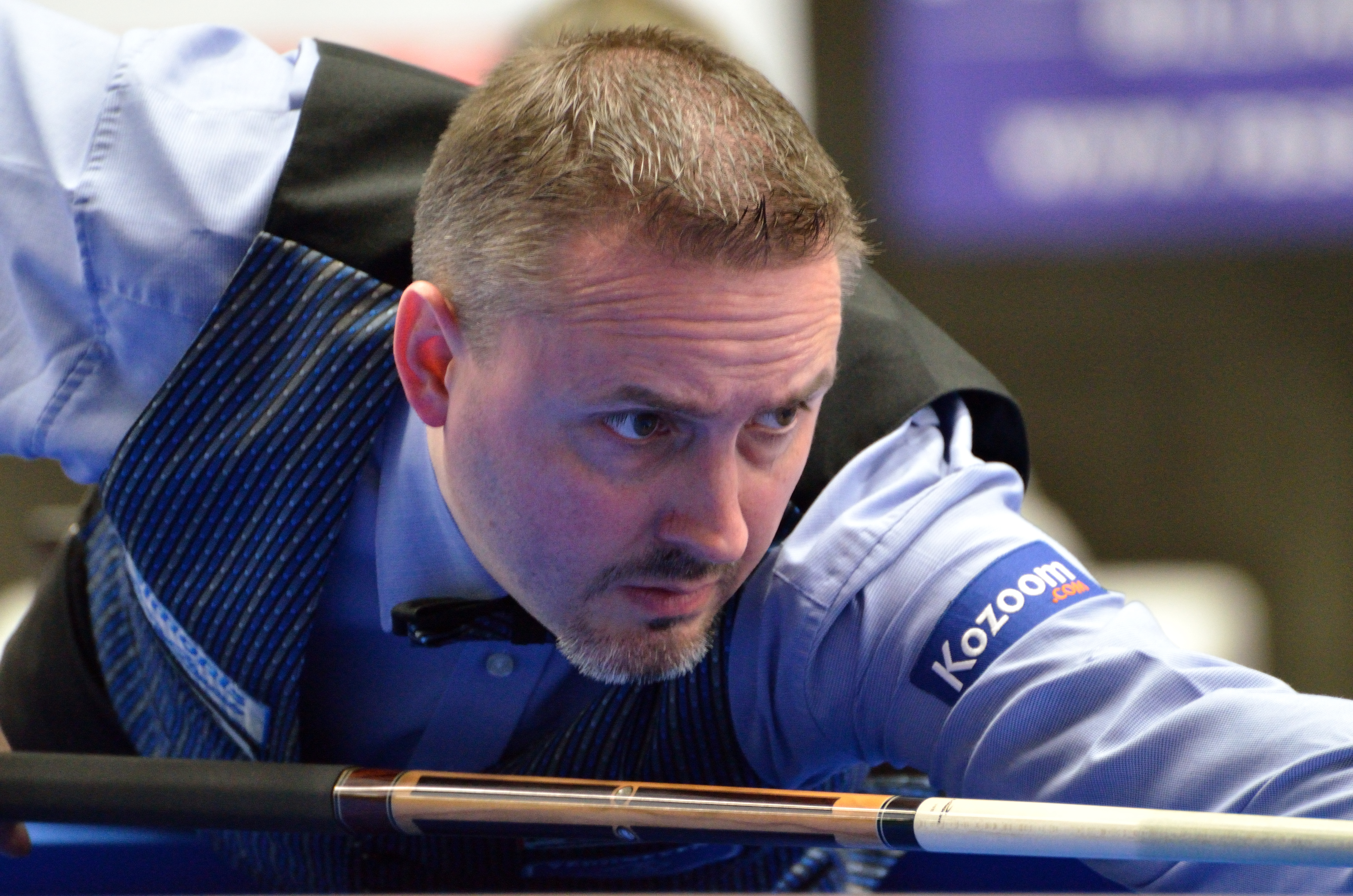 see file name